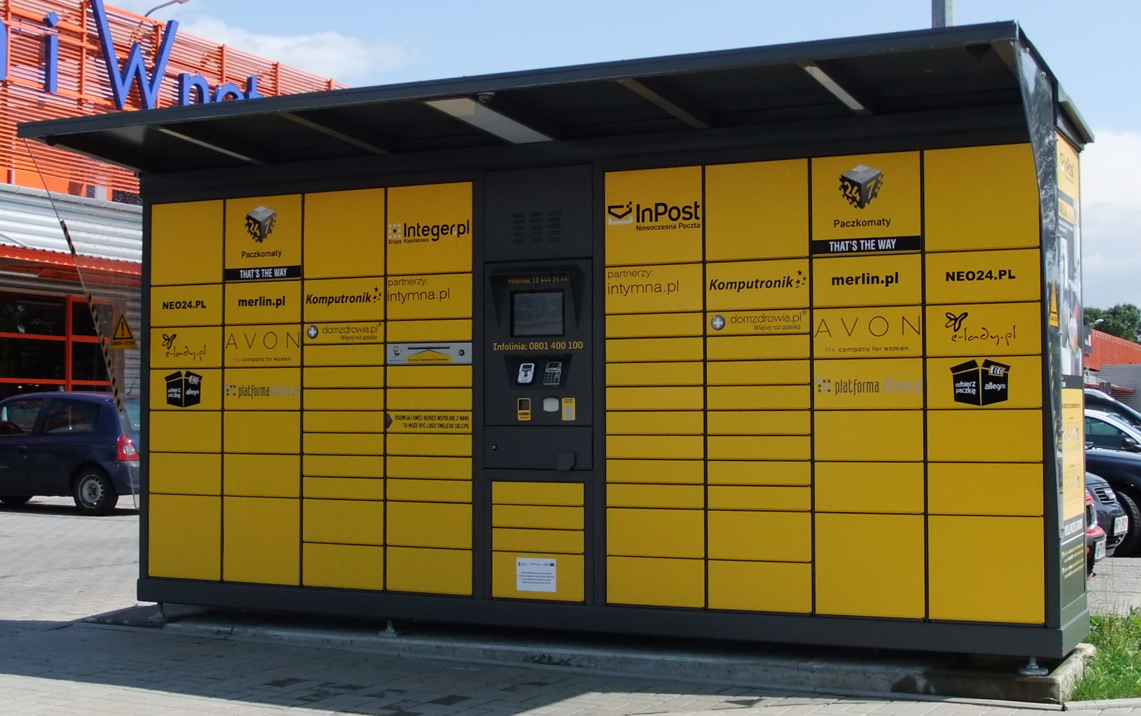 InPost Packstation in Warsaw, Poland.